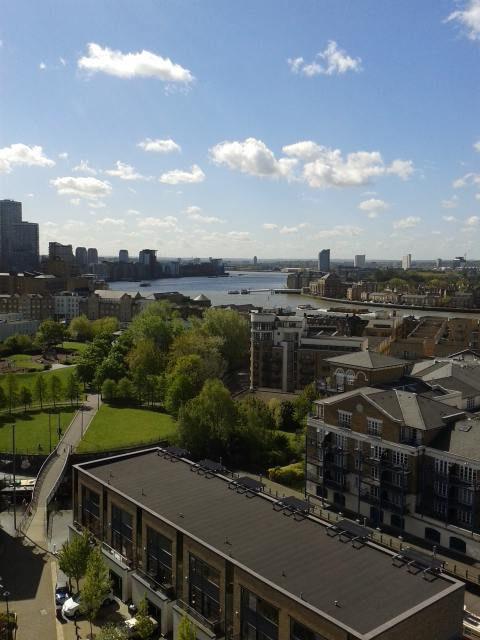 Limehouse Reach seen from above Limehouse Basin.